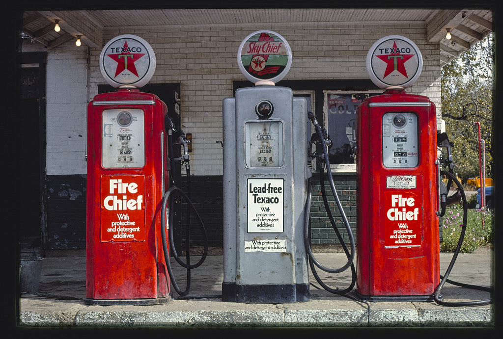 Margolies, John,, photographer. Texaco gas pumps, Milford, Illinois 1977. 1 photograph : color transparency ; 35 mm (slide format). Notes: Title, date and keywords based on information provided by the photographer. Margolies categories: Gas signs and statues; Gas stations. Please use digital image: original slide is kept in cold storage for preservation. Credit line: John Margolies Roadside America photograph archive (1972-2008), Library of Congress, Prints and Photographs Division. Purchase; John Margolies 2007 (DLC/PP-2007:125). Forms part of: John Margolies Roadside America photograph archive (1972-2008). Subjects: Automobile service stations--1970-1980. United States--Illinois--Milford. Format: Slides--1970-1980.--Color For more information, see "John Margolies Roadside America Photograph Archive - Rights and Restrictions Information" Repository: Library of Congress, Prints and Photographs Division, Washington, D.C. 20540 USA, Part Of: Margolies, John John Margolies Roadside America photograph archive (DLC) 2010650110 General information about the John Margolies Roadside America photograph archive is available at Higher resolution image is available (Persistent URL): Call Number: LC-MA05- 54